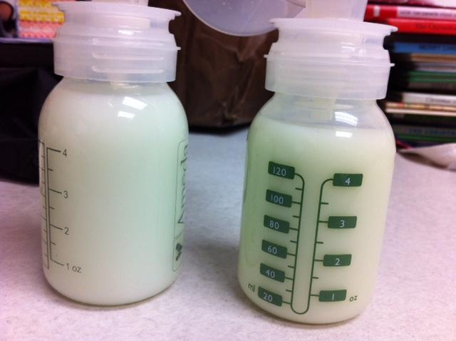 Two full bottles of pumped human breast milk